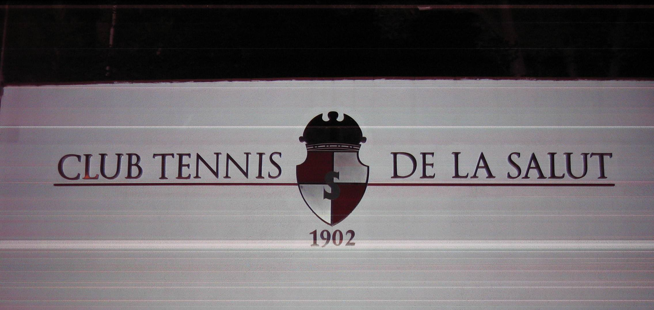 Logo at Club Tennis La Salut entrance, Catalonia.